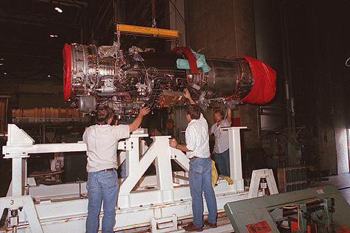 A General Electric F414 engine being installed on a test bed